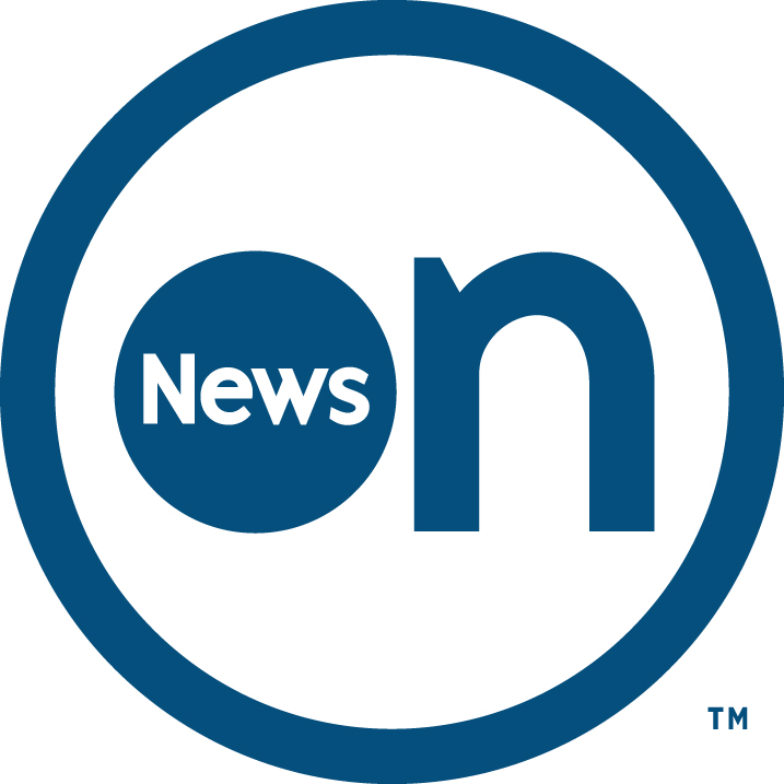 Logo for NewsON media.